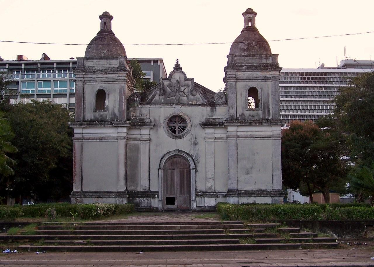 Quelimane Old Cathedral. Old Cathedral Quelimane, Mozambique, Qulimane.